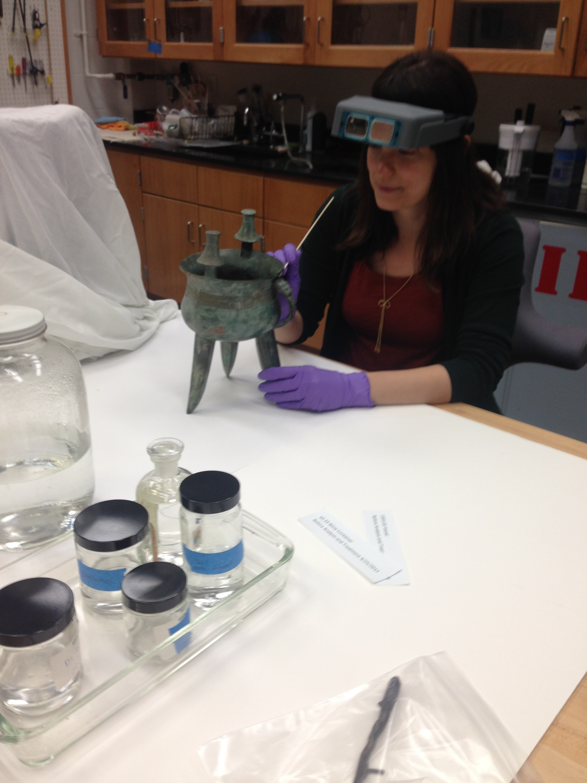 IMA Objects conservator examines a Chinese vessel.